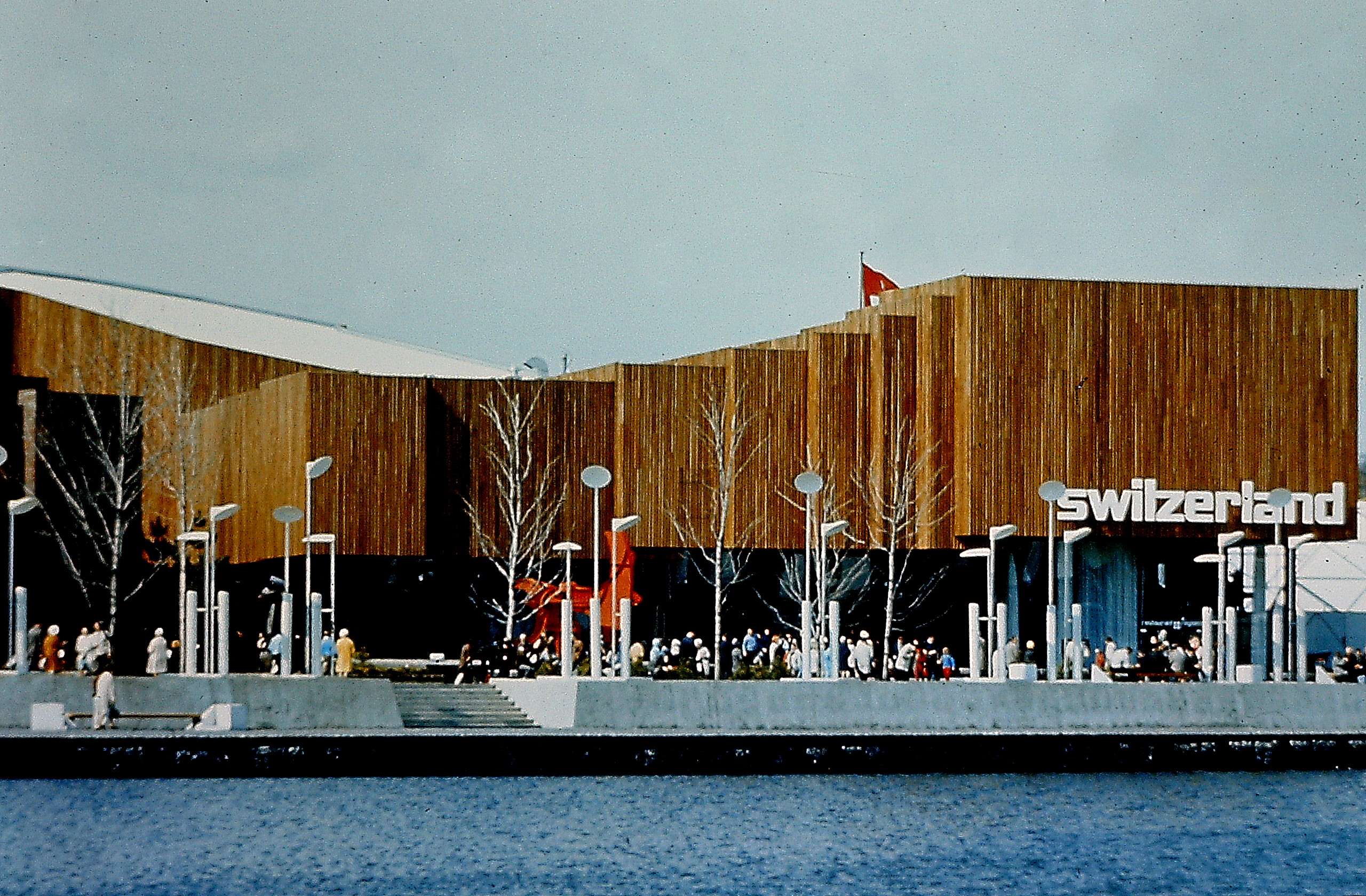 Swiss Pavilion at Universal Exposition of 1967, Montreal, Quebec, Canada